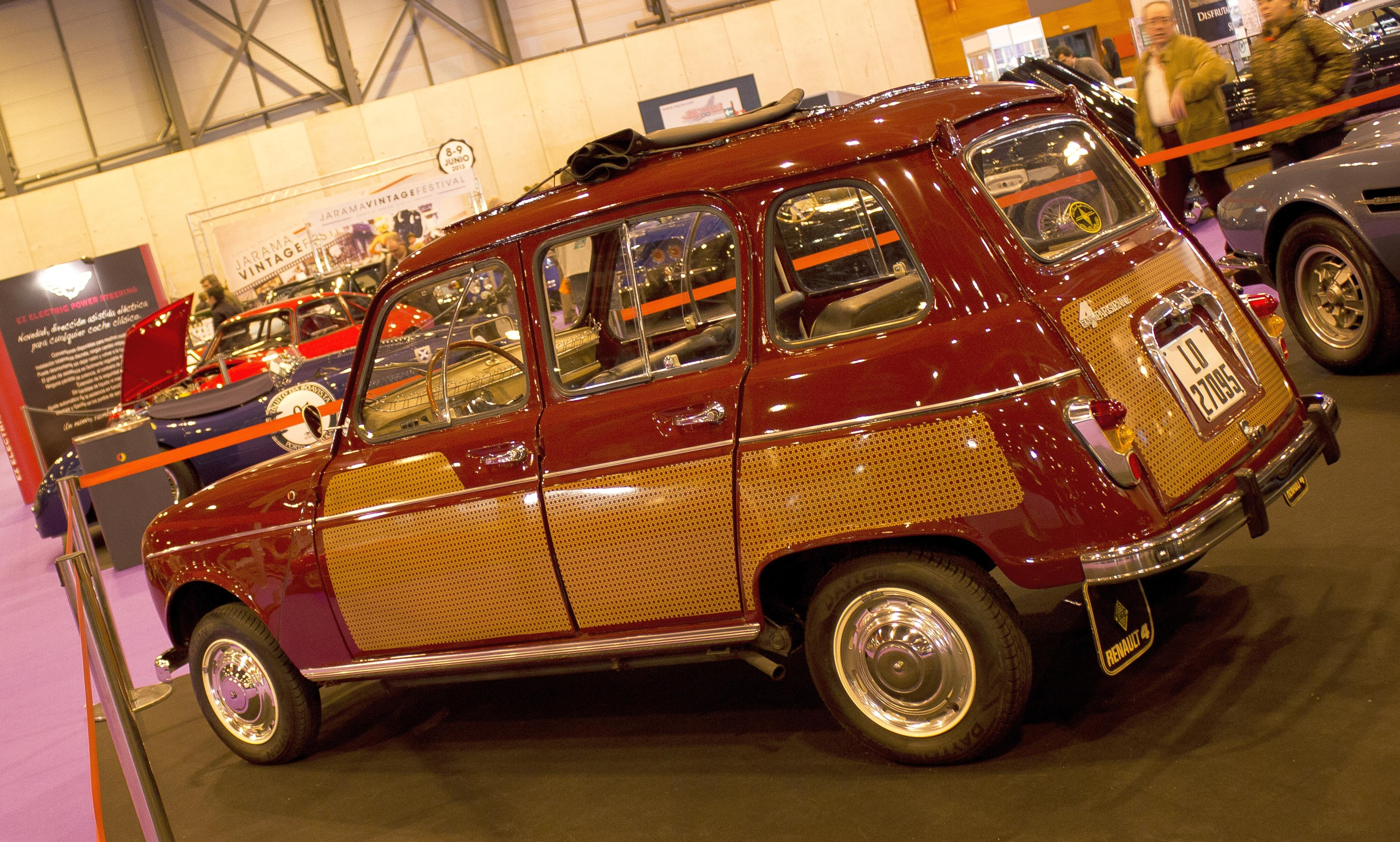 My favorite edition of the 4 L! I quote: 'It entered the scene in December 1963. This elegant version of the R4L was the result of an operation launched in conjunction with Elle magazine. Recognisable by its decorative side panels and its special interior, it was introduced in two versions, one with a wicker pattern and one with a plaid pattern.'